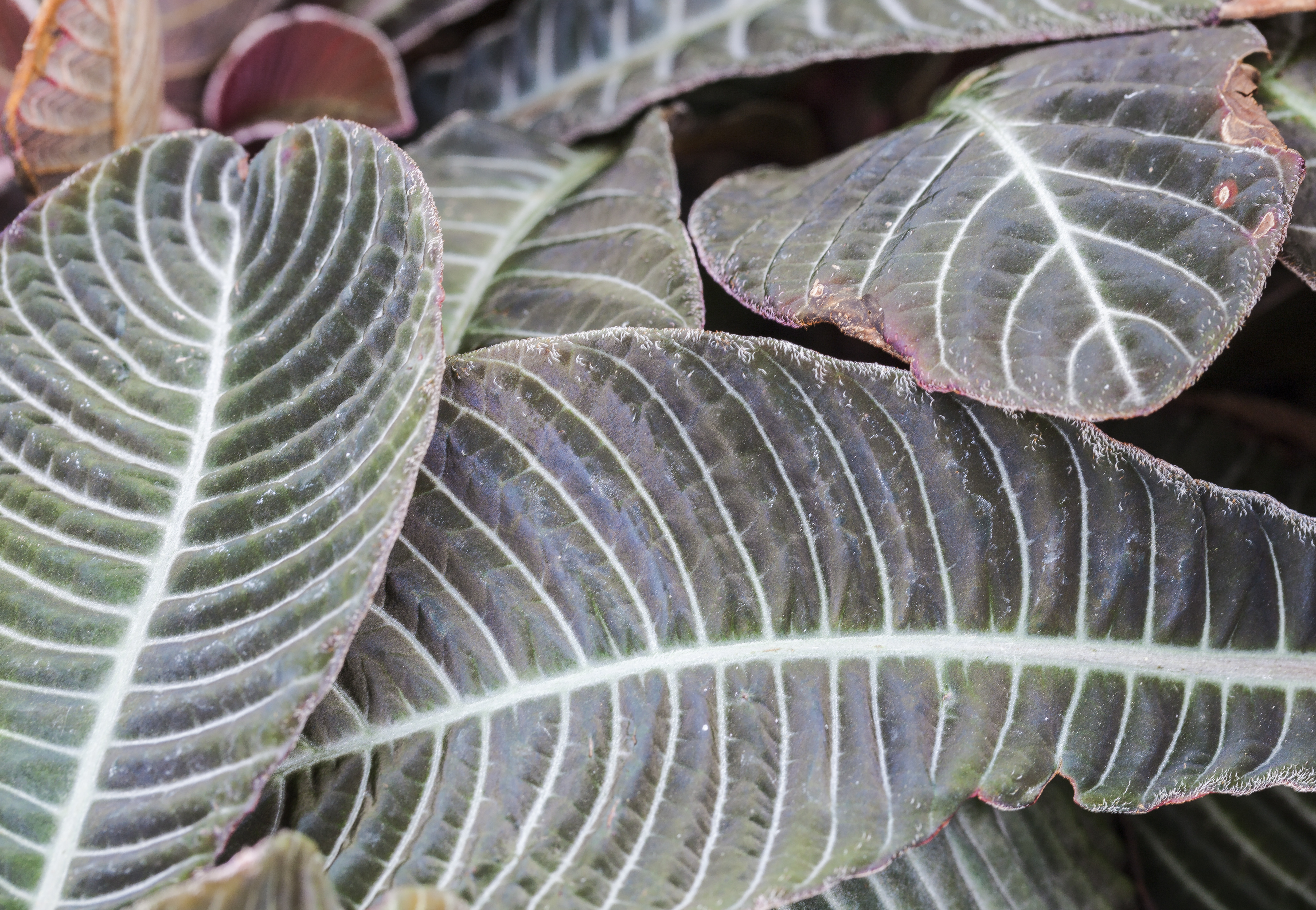 Hoffmannia roezlii, Munich Botanical Garden, Germany